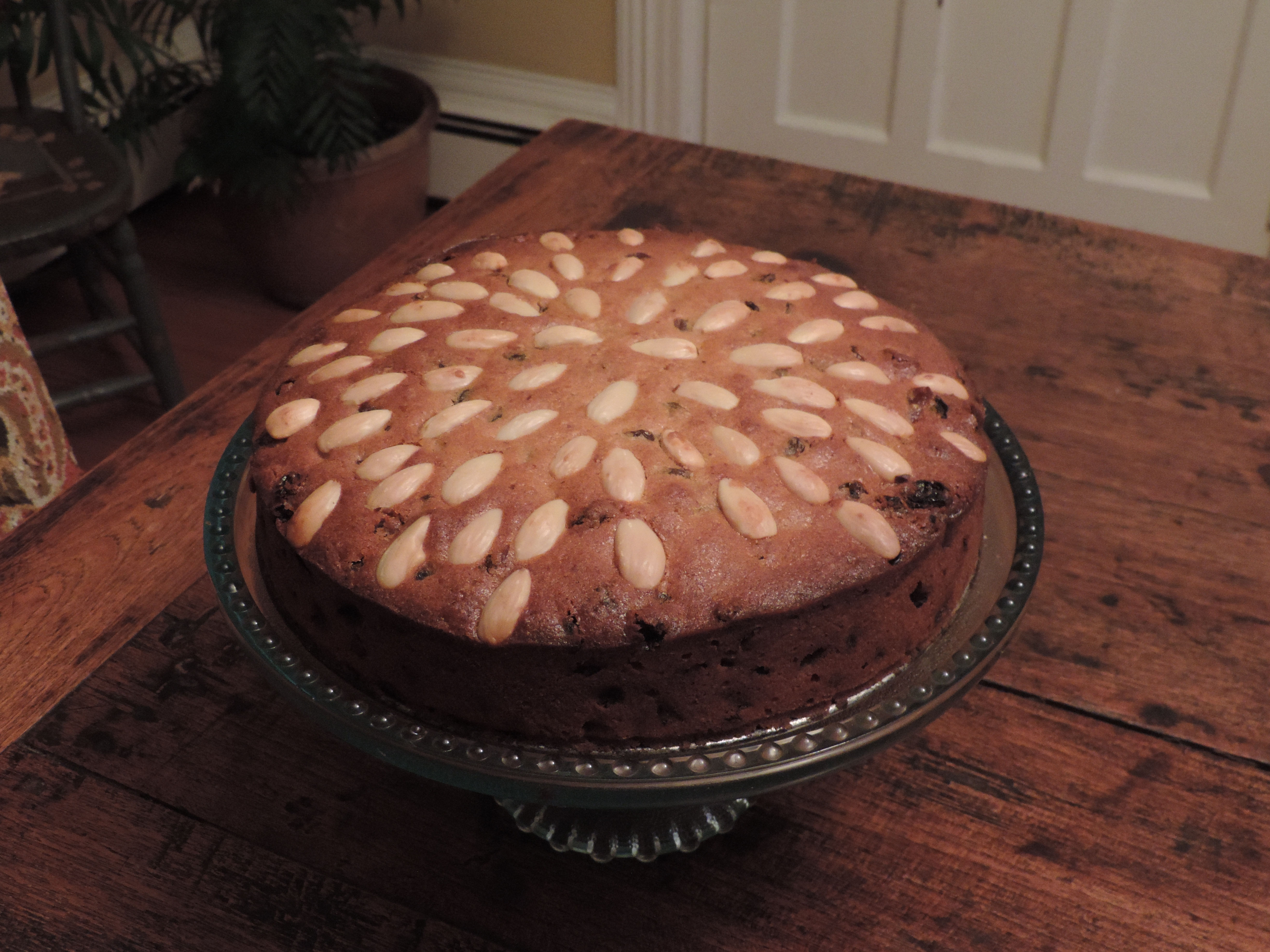 A traditional North British Dundee cake.